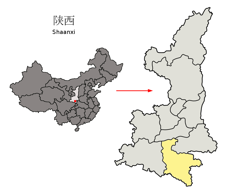 Location of Ankang Prefecture (yellow) within Shaanxi Province of China Map drawn in december 2007 using various sources, mainly : Shaanxi Province administrative regions GIS data: 1:1M, County level, 1990 Shaanxi Counties map from